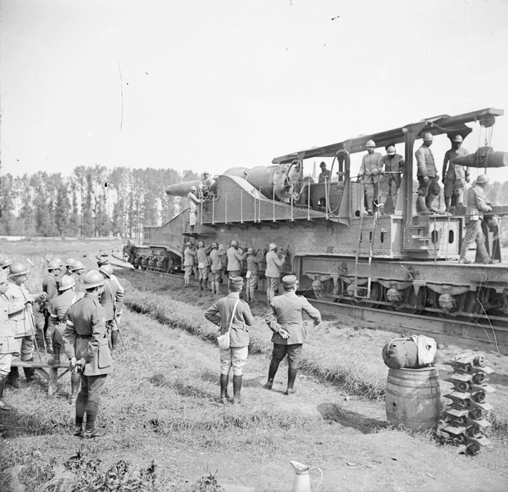 Chinese mission in front of a 320 mm railway gun at Thierville-sur-Meuse.